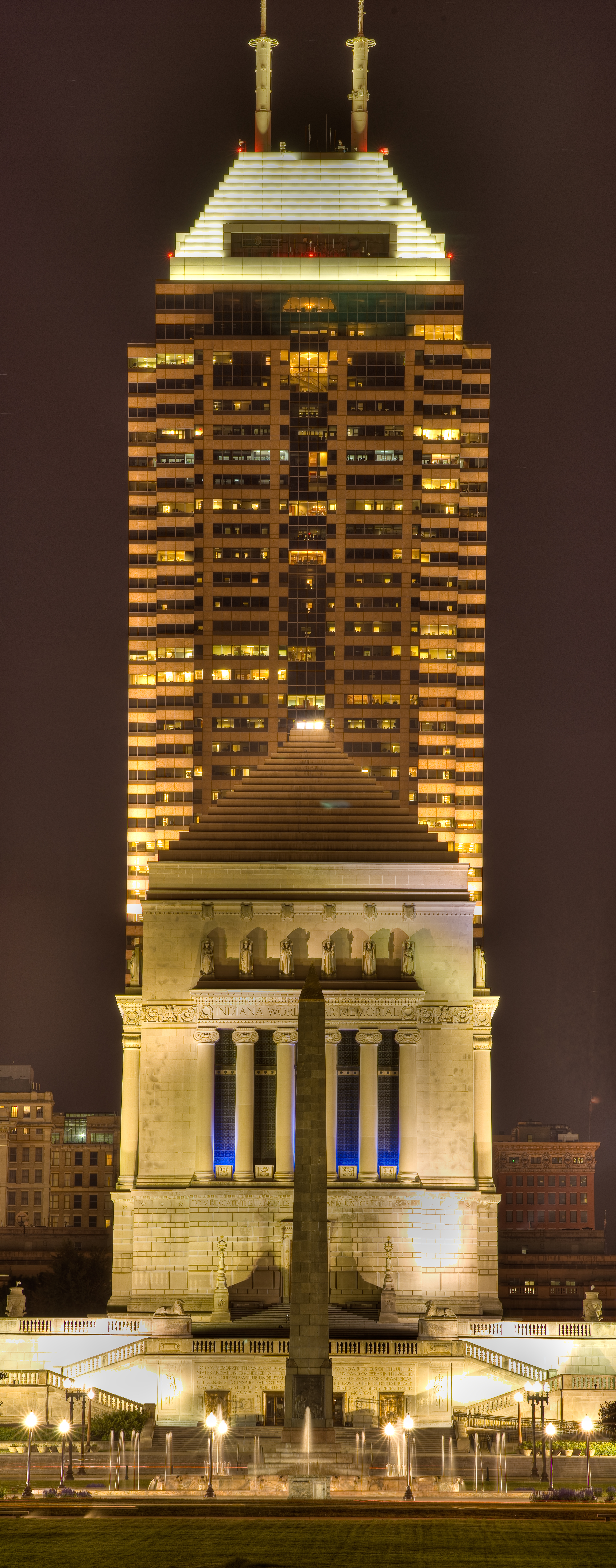 To get the full experience in extreme detail click this link: Actual Size Inspired by the technique described in Nikon Digital Learning Center on Extreme Panoramas I drove downtown to take this photo. I took a total of 24 shots (8 sets of 3 bracketed exposures).